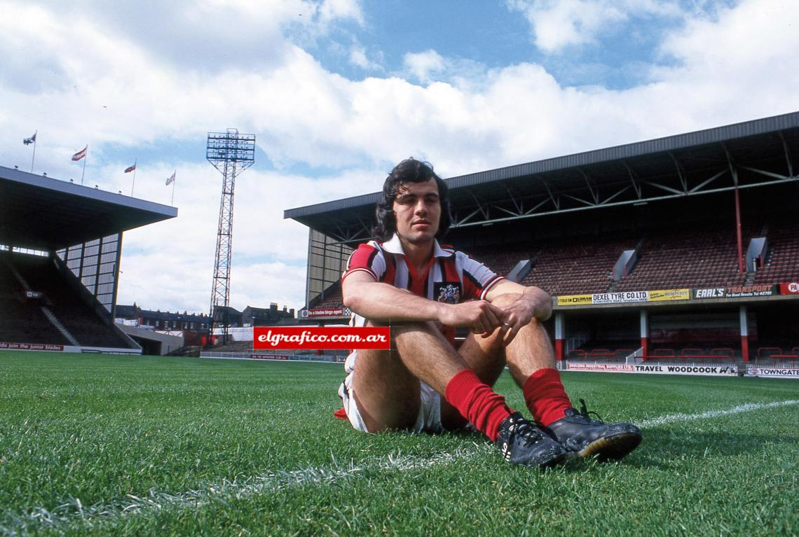 Alejandro Sabella playing for Sheffield United.